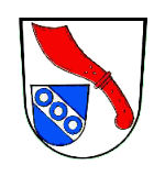 Coat of Arms of Prosselsheim